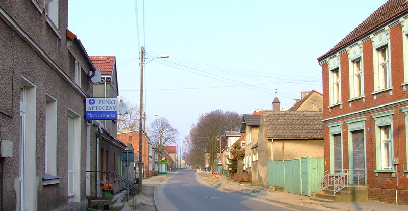 Trzebież (Police County, West Pomeranian Voivodeship), Poland